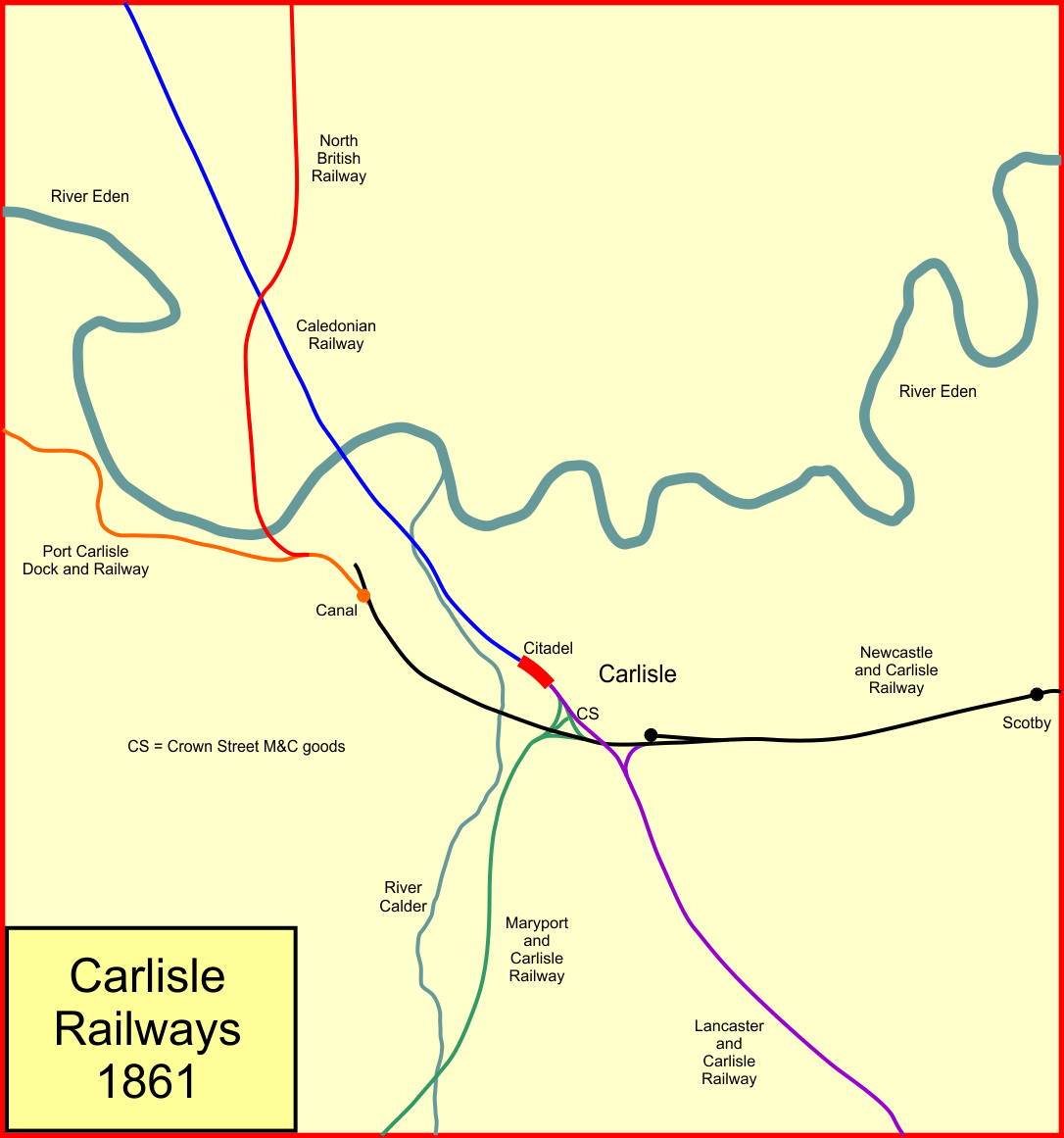 Railways of Carlisle, England, in 1861